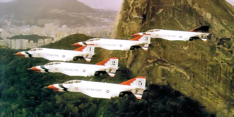 United States Air Force photo of the United States Air Force Thunderbirds demonstration team, using F-4E Phantom IIS, about 1972